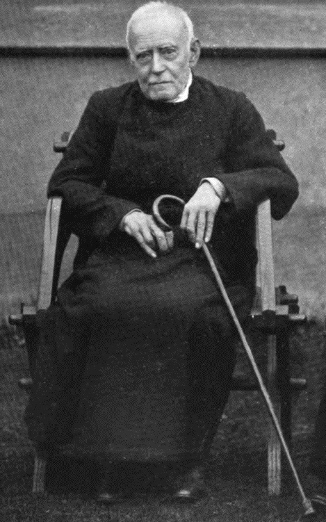 The Rev. Richard Meux Benson, photo taken at about age 90.